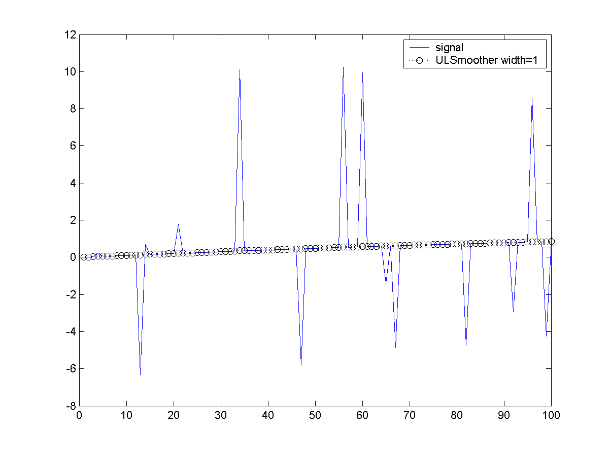 Application of UL Smoother of width 1 to sample data